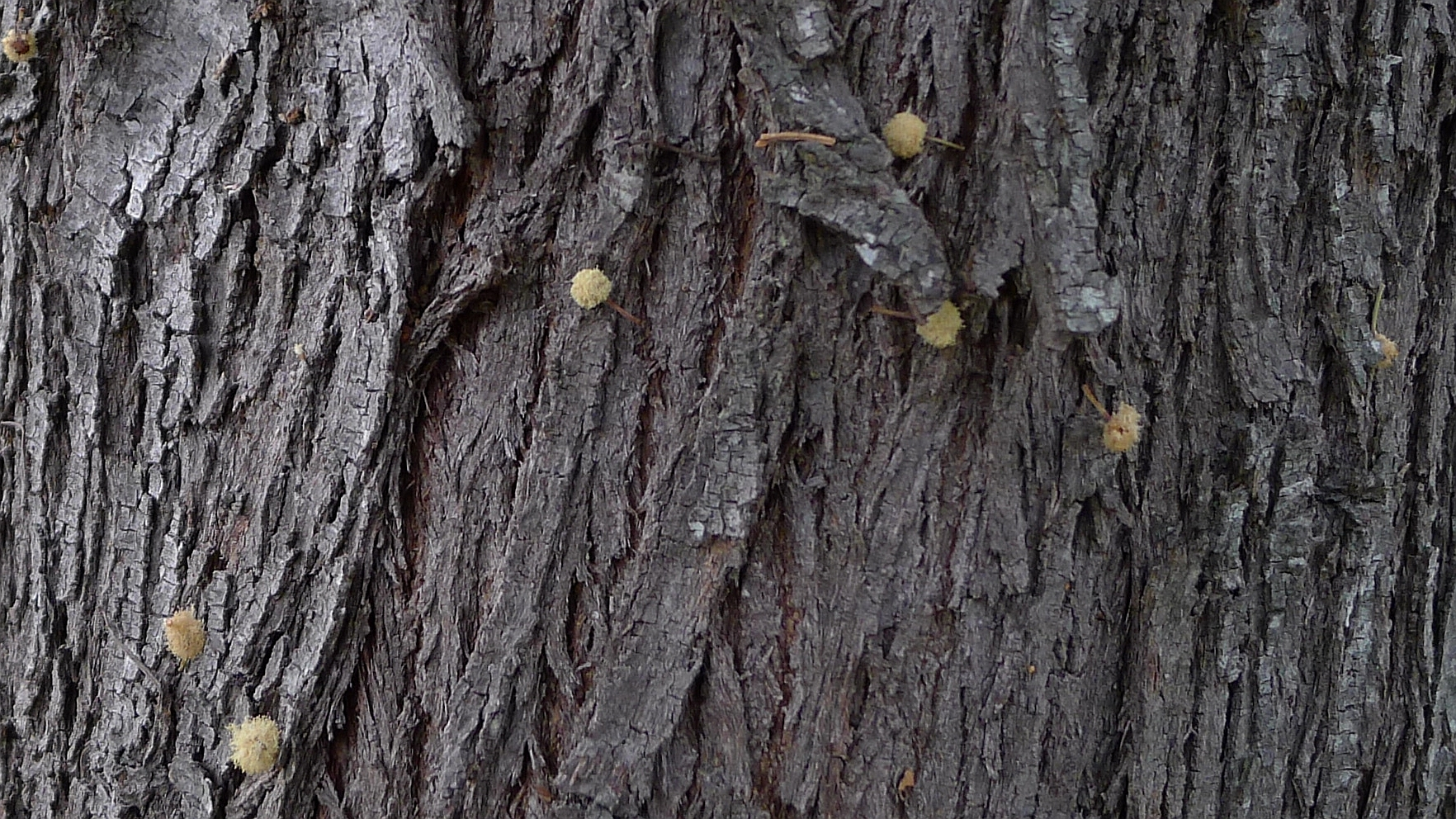 Lightwood probably Acacia implexa. Dargo Victoria Australia, September 2011.